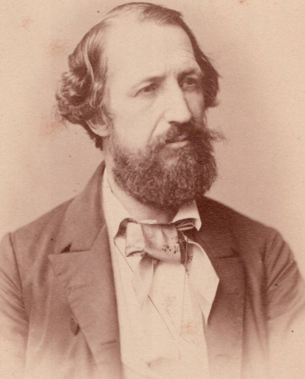 Osbert Burr Loomis (July 30, 1813-Apnl 30, 1886) American portrait painter.